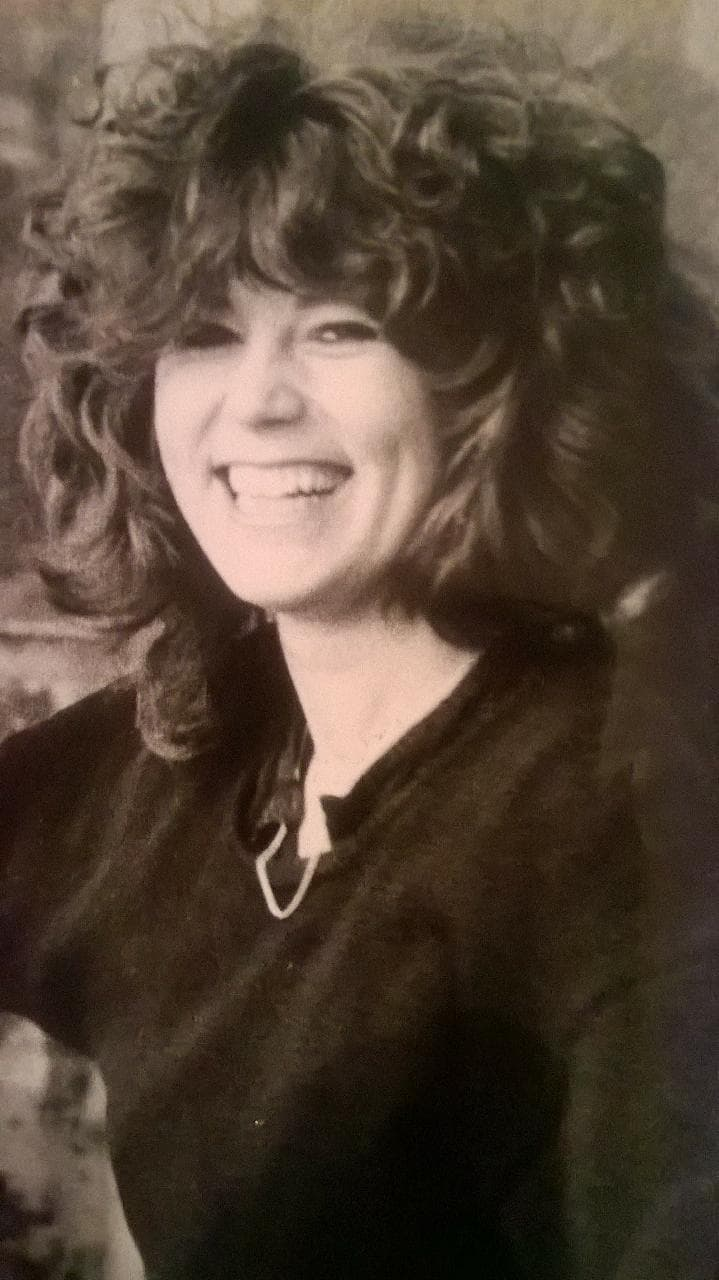 This is a photo of theatre director Elisabeth Frick, Stockholm.